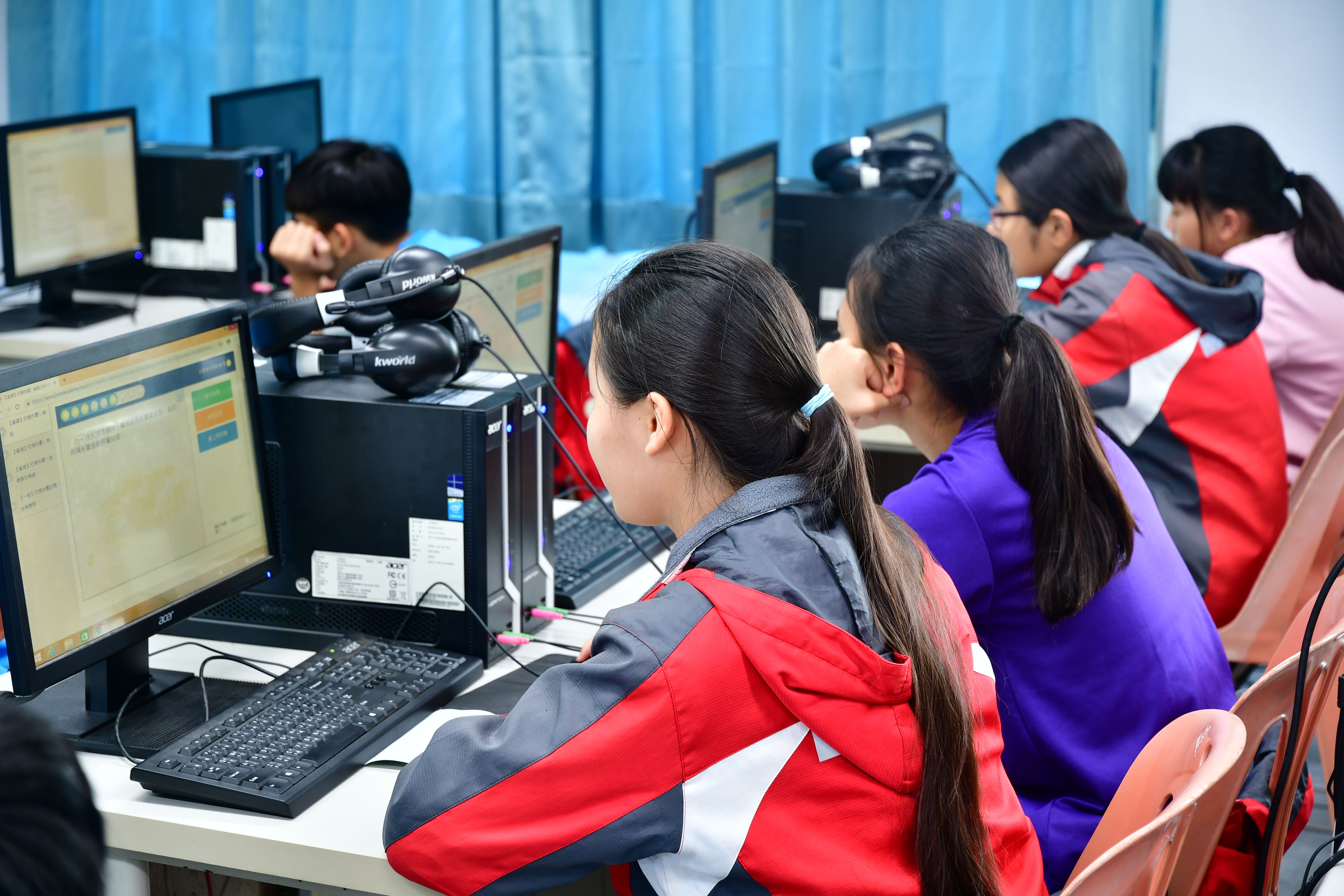 The students of Baozhong Junior High School are using Junyi Academy to learn or study. 中文（台灣）: 雲林縣立褒忠國民中學學生使用均一教育平台上課。